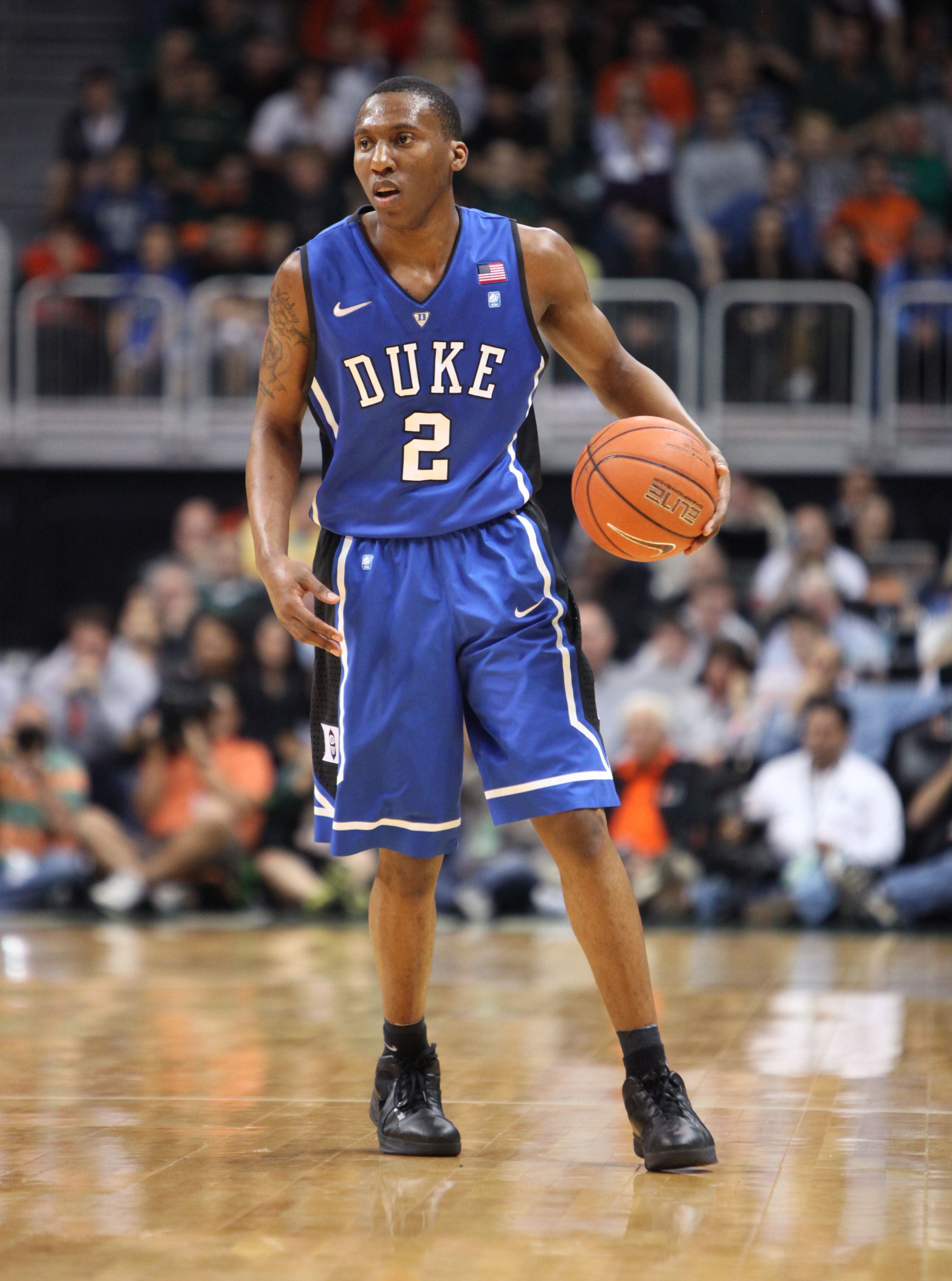 FEB. 13, 2011-Coral Gables, Florida, U.S - Duke Blue Devils guard Nolan Smith (2) in action during the game between Miami and Duke at Bank United Center in Coral Gables, Florida.The Duke Blue Devils defeated the Miami Hurricanes 81-71